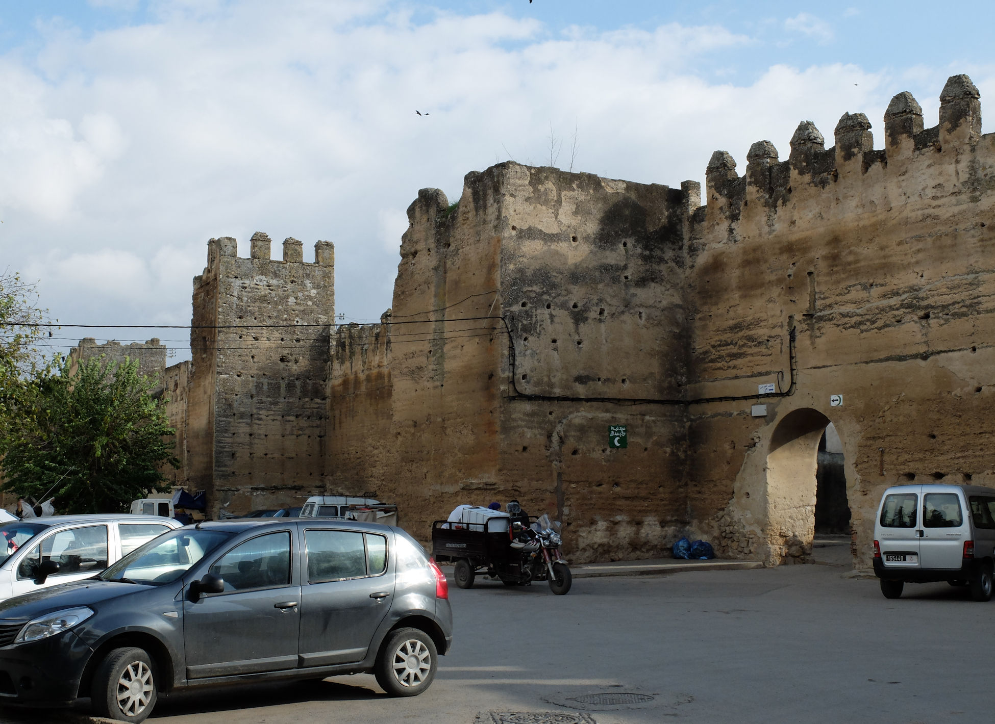 The northwest entrance to the Moulay Abdallah quarter today. There's a car park here too. The walls probably date from the original Marinid construction of Fes el-Jdid (late 13th century). (The entrance is just a simple opening and probably relatively recent, dating at least from after the creation of the 19th-century Bab Bou Jat Mechouar when the former western entrance of the quarter was closed off.)